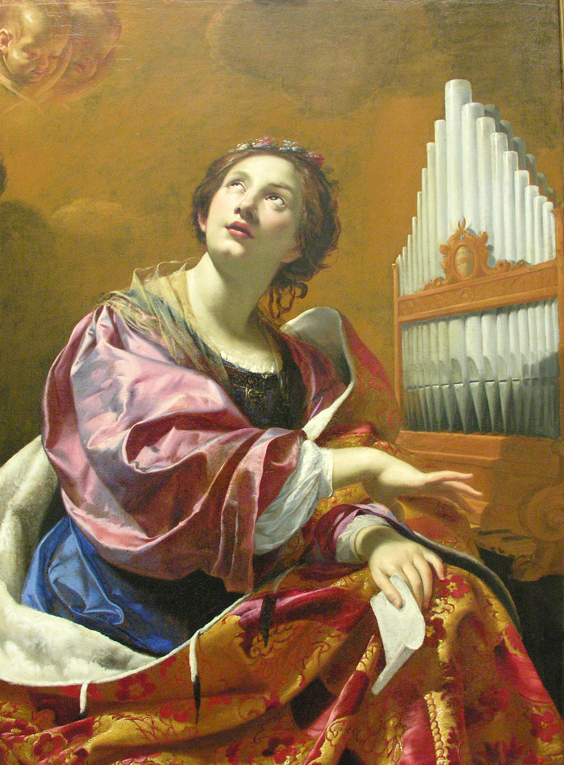 Cecilia is the patron saint of organists